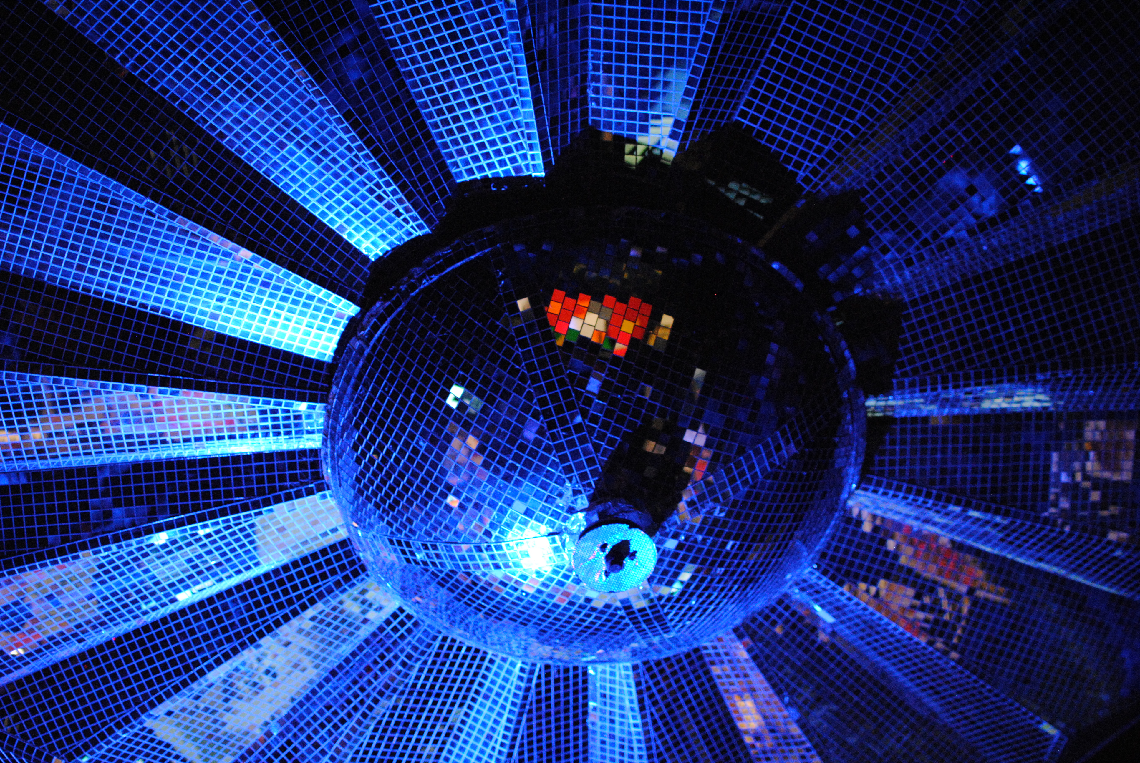 Rotating flower-petal mirror ball, used to reflect spotlights during Pink Floyd concerts from 1975 to 1977; displayed at the Pink Floyd: Their Mortal Remains exhibition at the Victoria and Albert Museum.